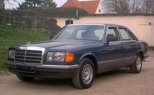 1986-1991 Mercedes-Benz W126